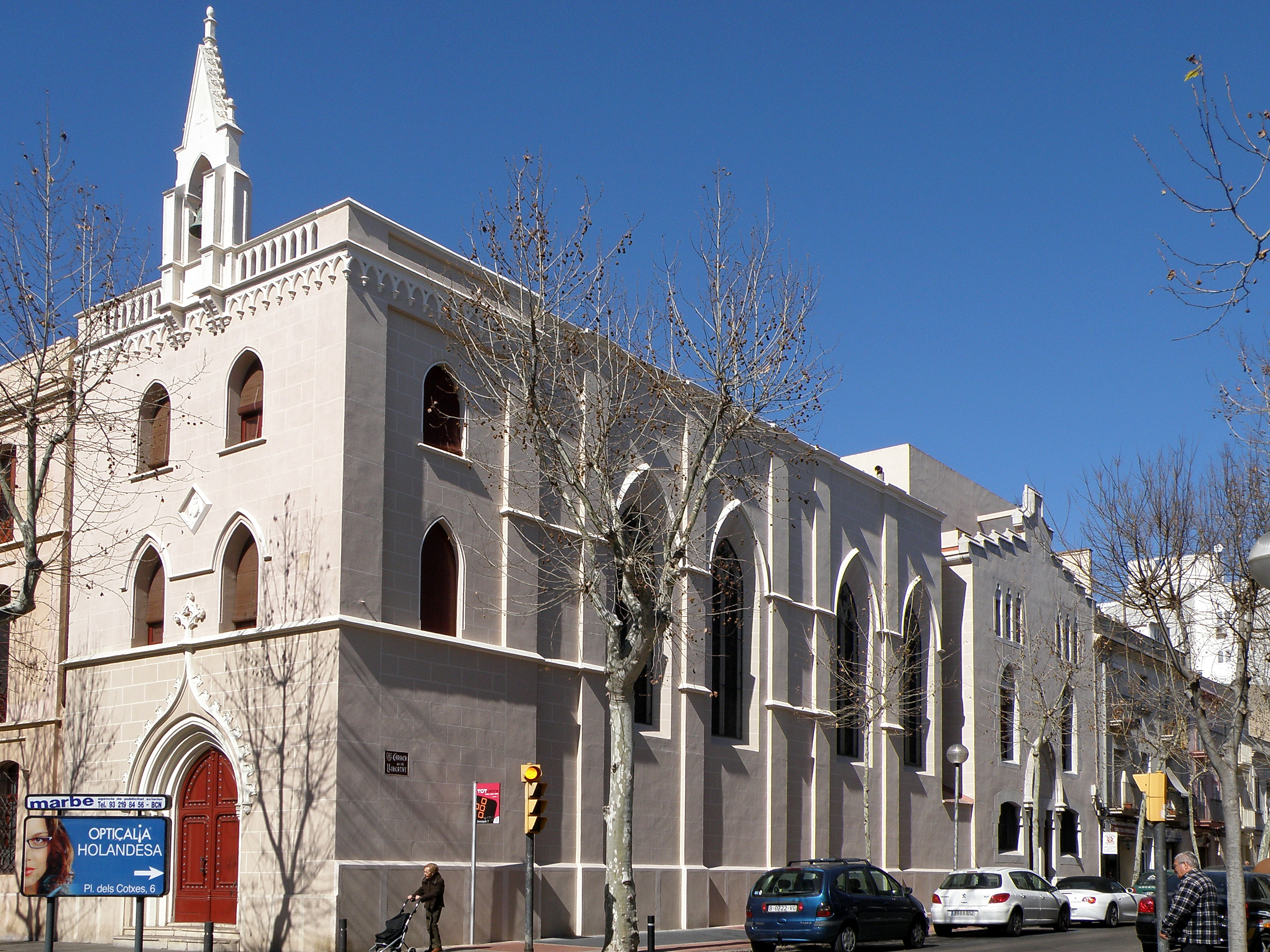 Chapel of the elderly home in Vilanova i la Geltrú